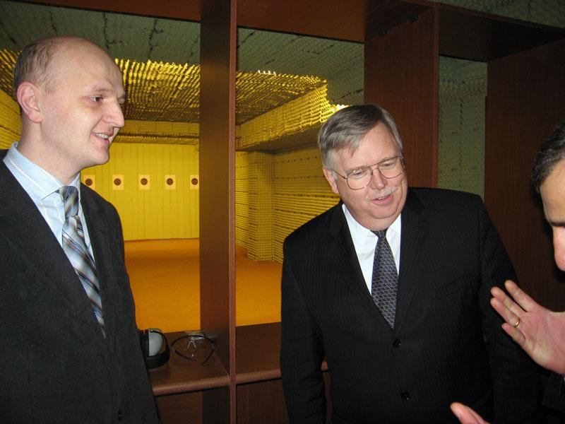 Chairman of the Supreme Court, Kote Kublashvili (left), and Ambassador Tefft view the shooting range facility at the forensics lab.